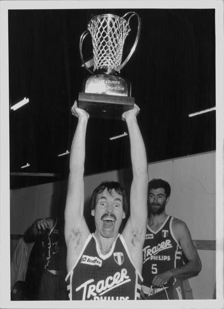 Mile D'Antoni rises the trophy